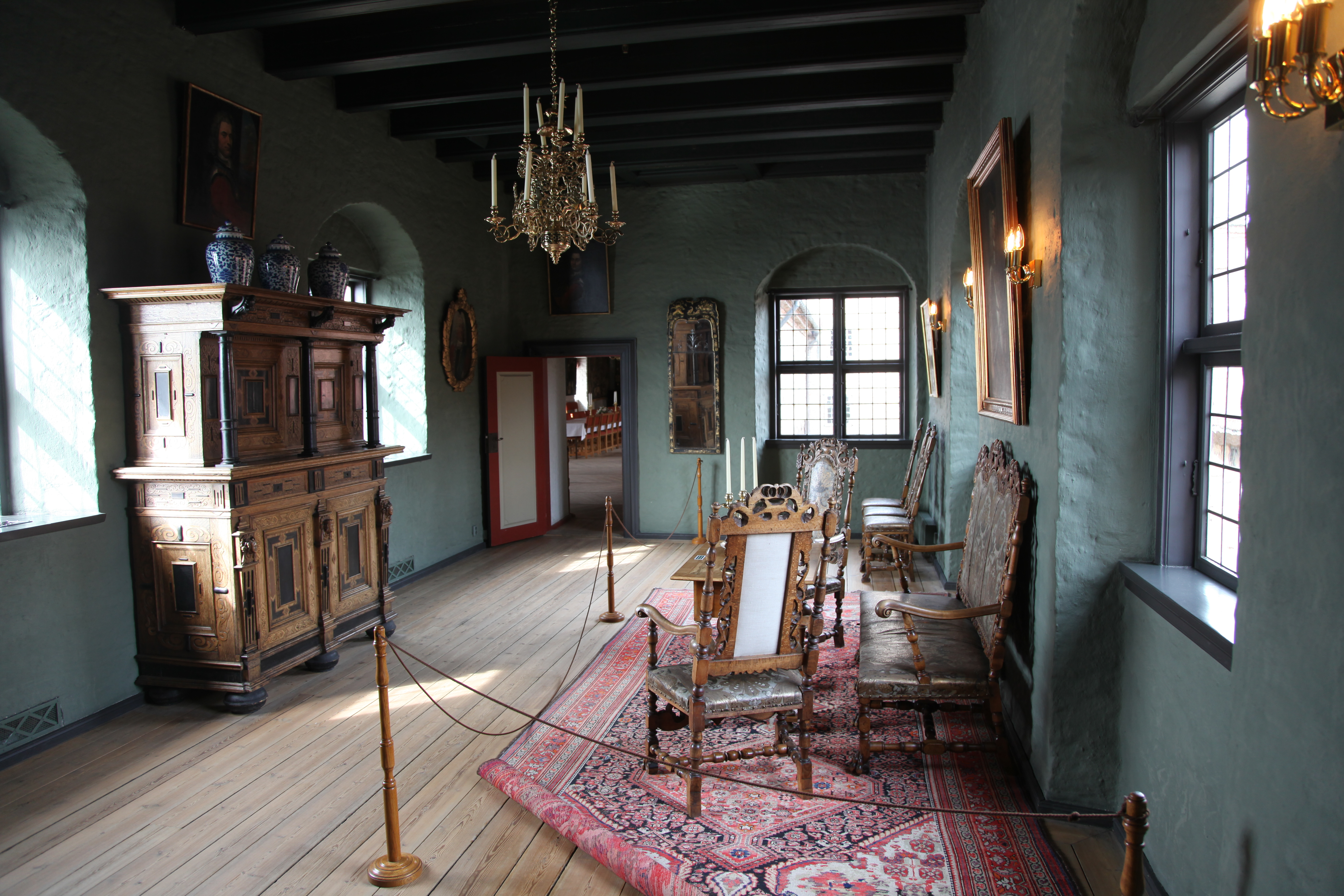 Akershus Castle. North Scribes' room (The guestroom).